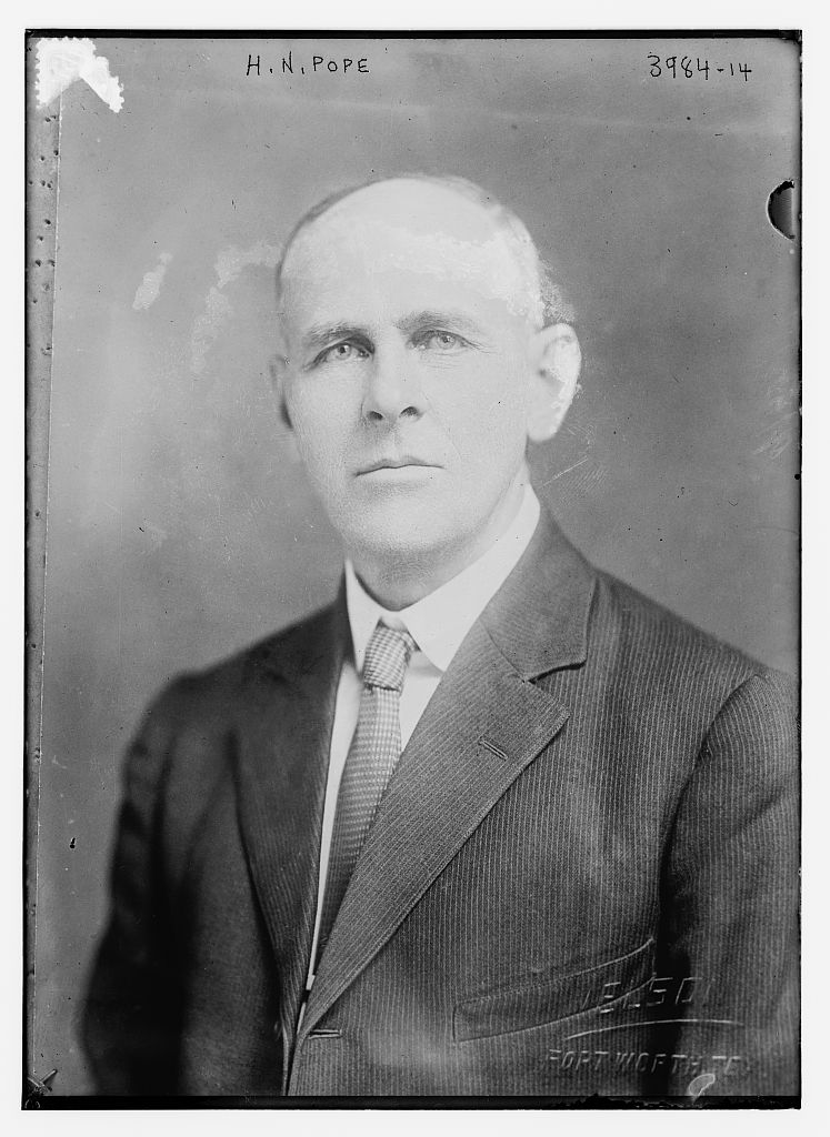 Henry Nelson Pope (1859-1956) was president of the Texas Farmers Union. In 1916 he testified before the United States Congress